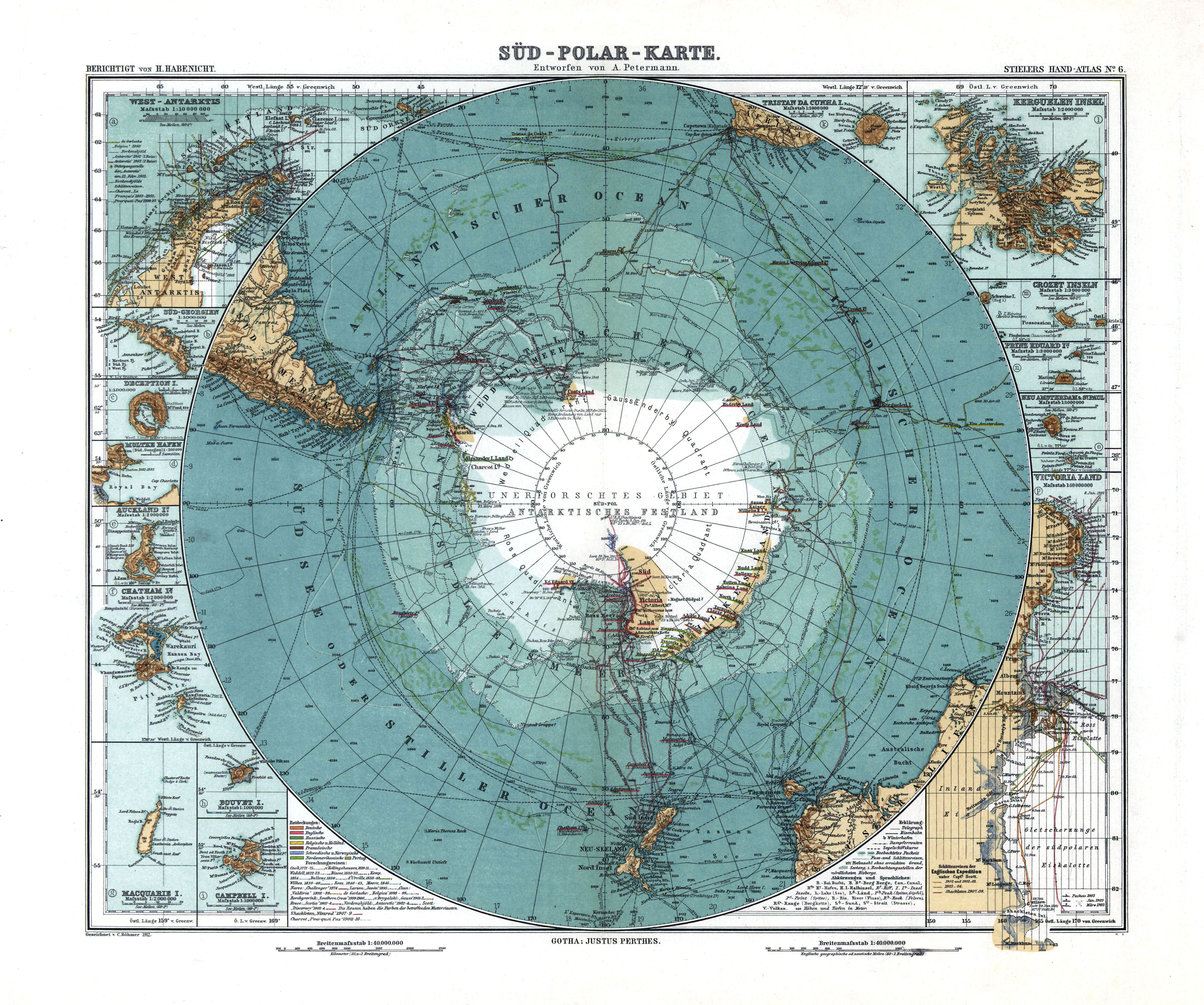 Map of Antarctica. Scale [ca. 1:40,000,000]. Col., 34 x 41 cm.